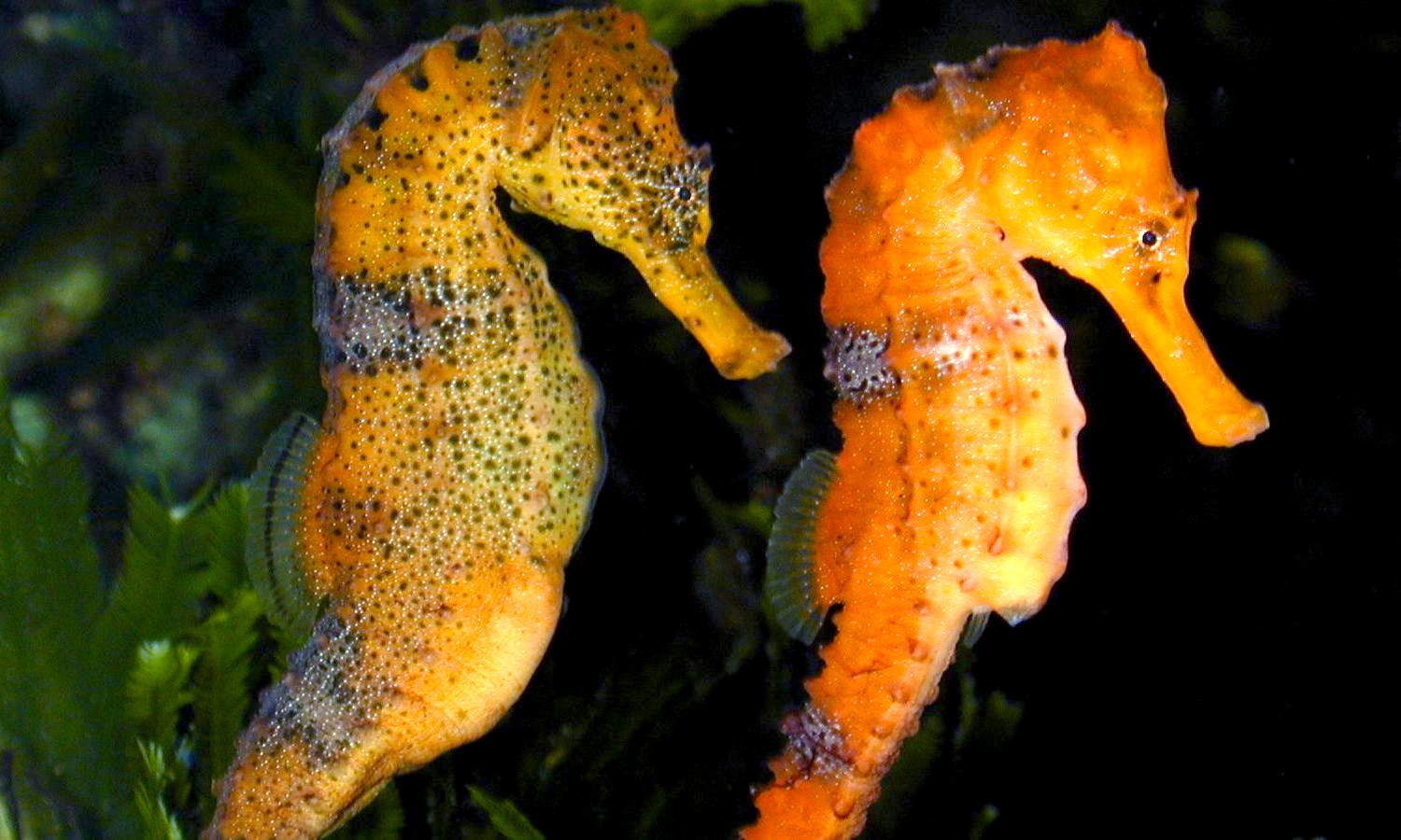 Male and female Hippocampus reidi